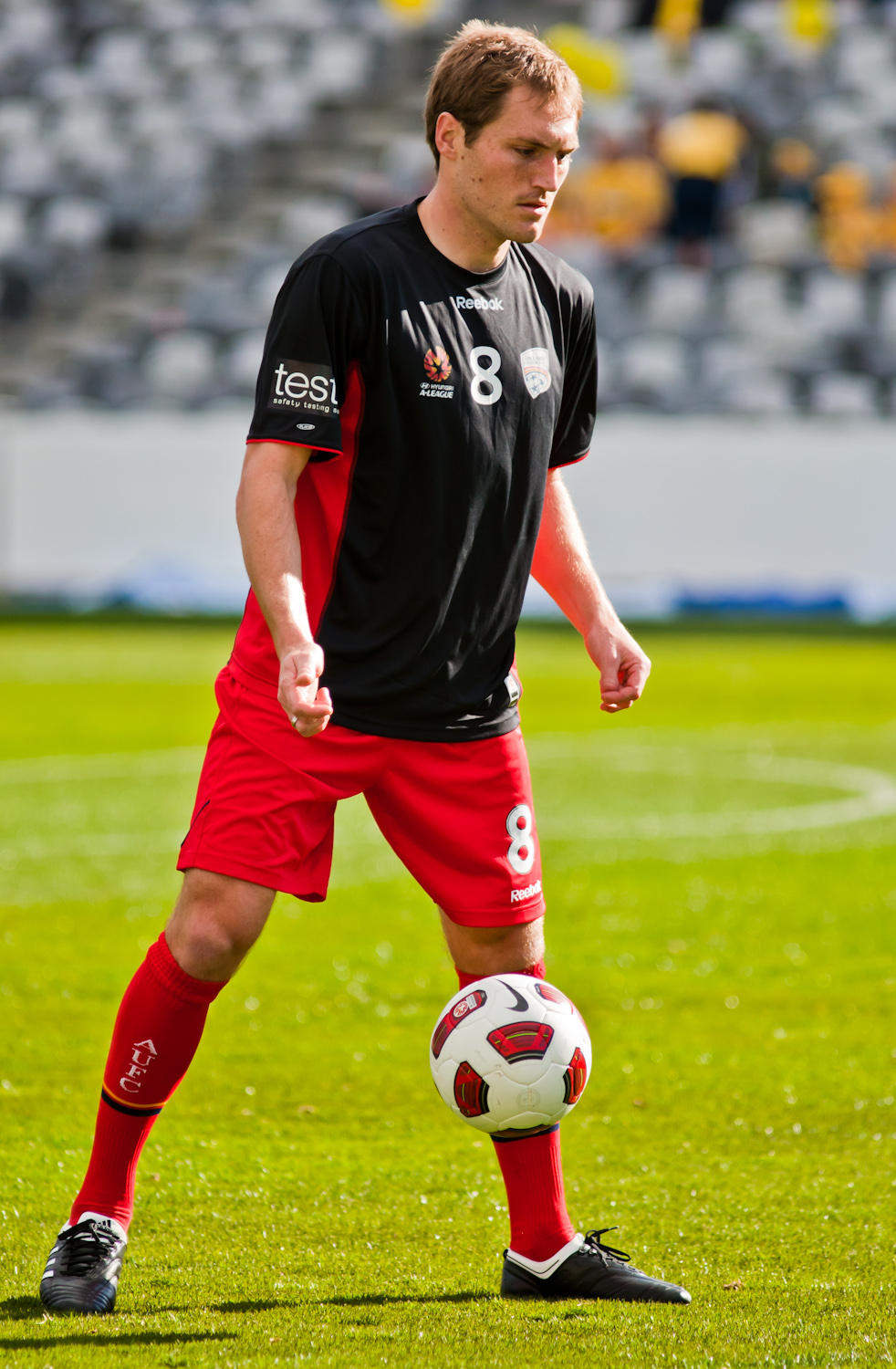 Adam Hughes warming up with Adelaide United before an A-League Round 2 game against the Central Coast Mariners.